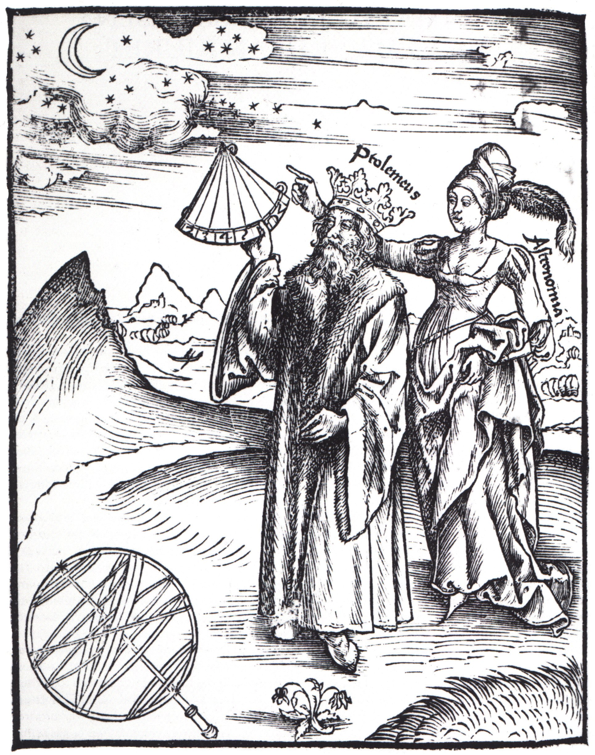 Gregor Reisch: Margarita Philosophica, 1503. Allegory “Astronomia”.